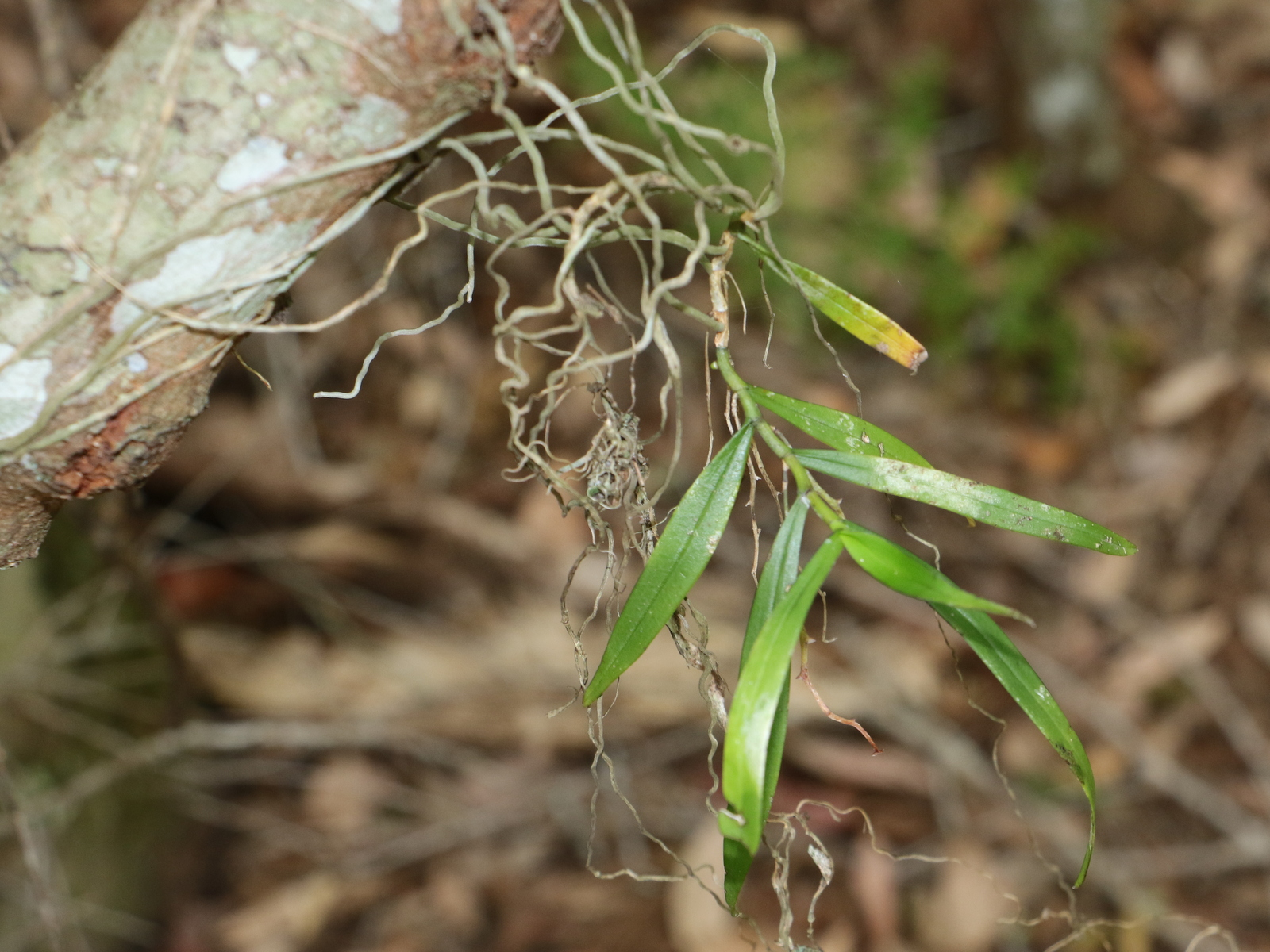 likely to be the Tangle orchid Plectorrhiza tridentata, Berowra Valley National Park